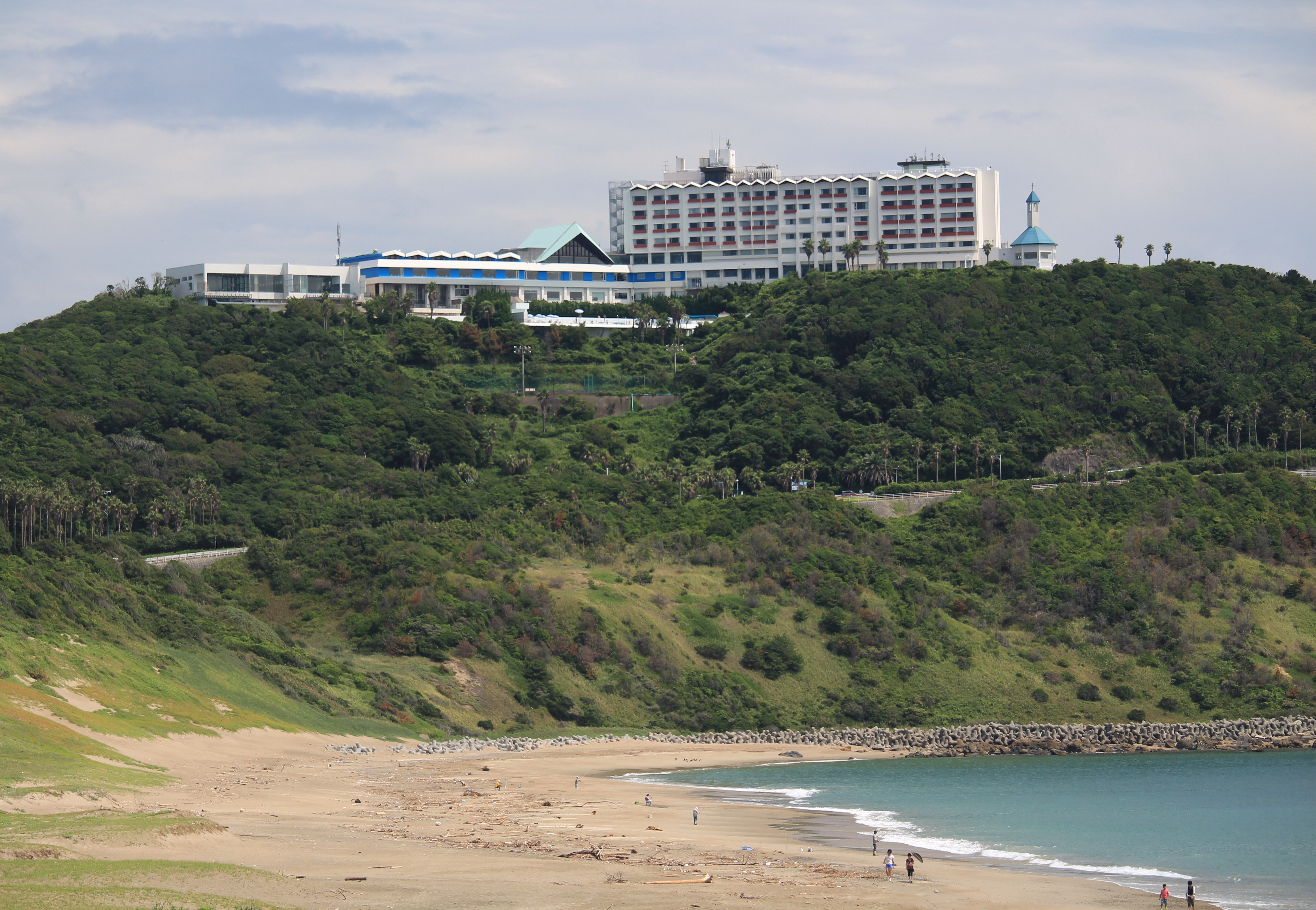 IRAKO VIEW HOTEL, seen from Koiji Beach around Cape Irago, Tahara, Aichi prefecture, Japan.